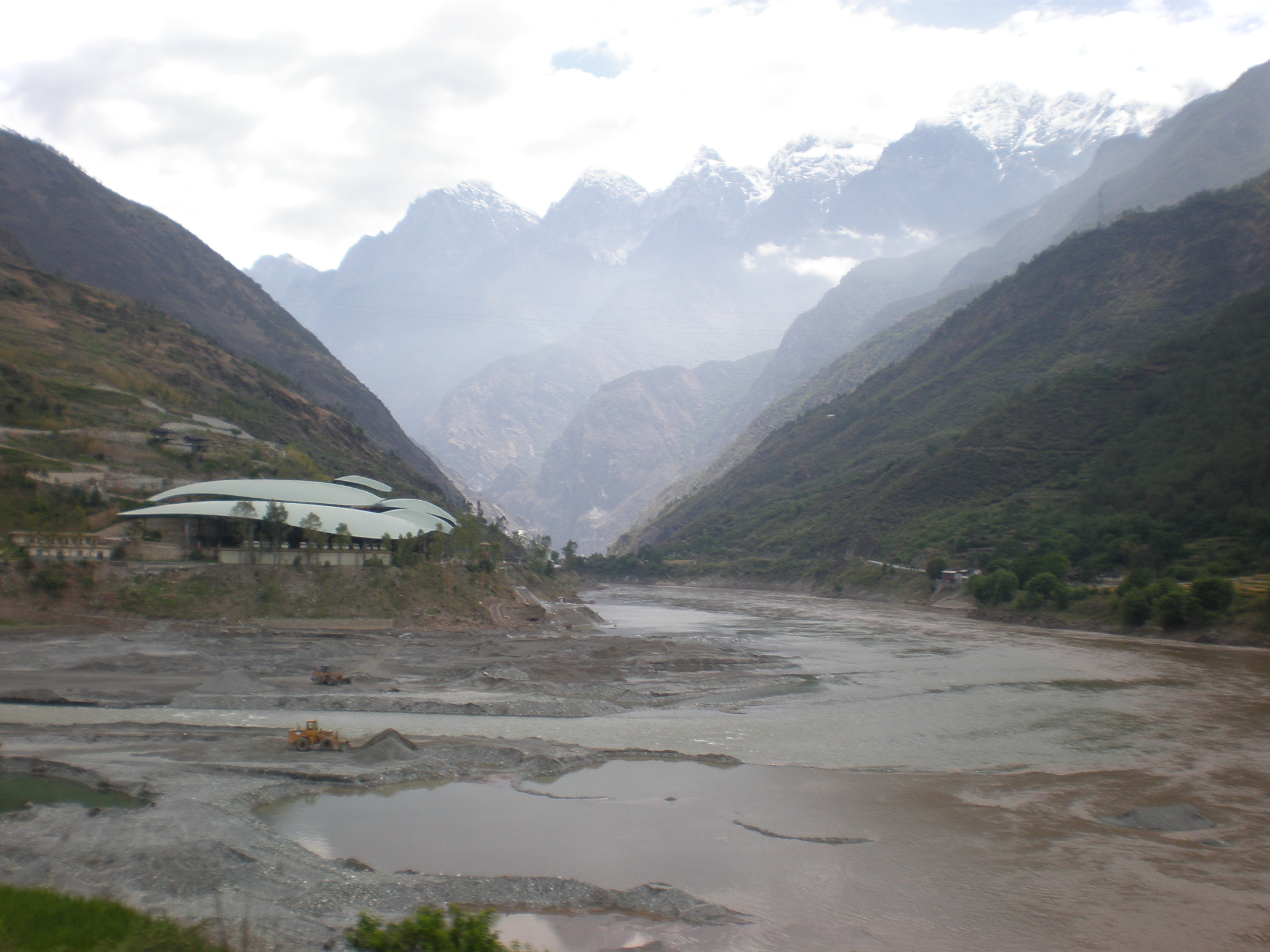 A section of the Yangtze River flowing through Yunnan, see while traveling from Lijiang to Qiatou. Exact area unknown.